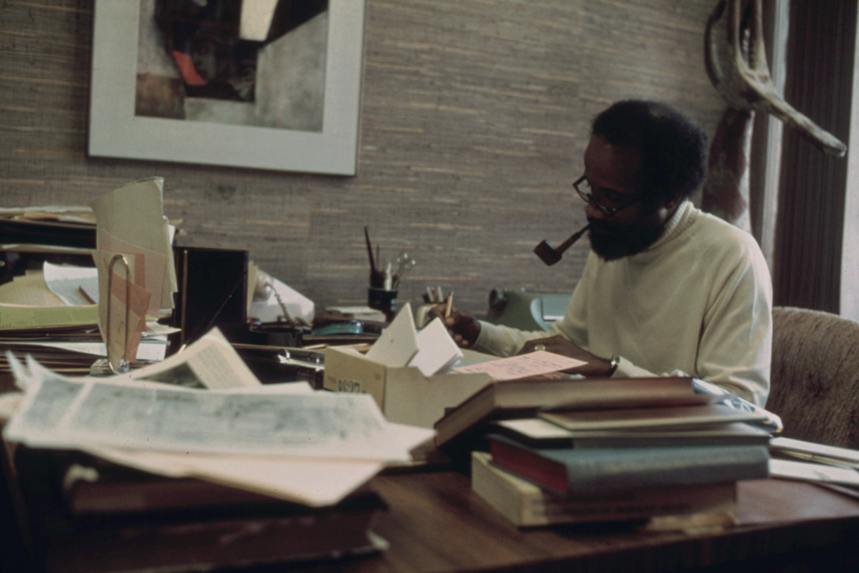 LERONE BENNETT, WELL KNOWN BLACK WRITER WHO IS SENIOR EDITOR AT EBONY MAGAZINE, IN HIS OFFICE AT JOHNSON PUBLISHING COMPANY IN CHICAGO. THE FIRM ALSO PUBLISHES JET, BLACK WORLD, BLACK STARS AND EBONY JR. AS THE TOP BLACK OWNED BUSINESS IN CHICAGO, THE FIRM RECORDED 1972 SALES OF $23.1 MILLION. CHICAGO IS BELIEVED TO BE THE BLACK BUSINESS CAPITAL OF THE COUNTRY WITH 14 OF THE TOP 100 BLACK OWNED BUSINESSES COMPARED TO 13 FOR NEW YORK CITY, 10/1973